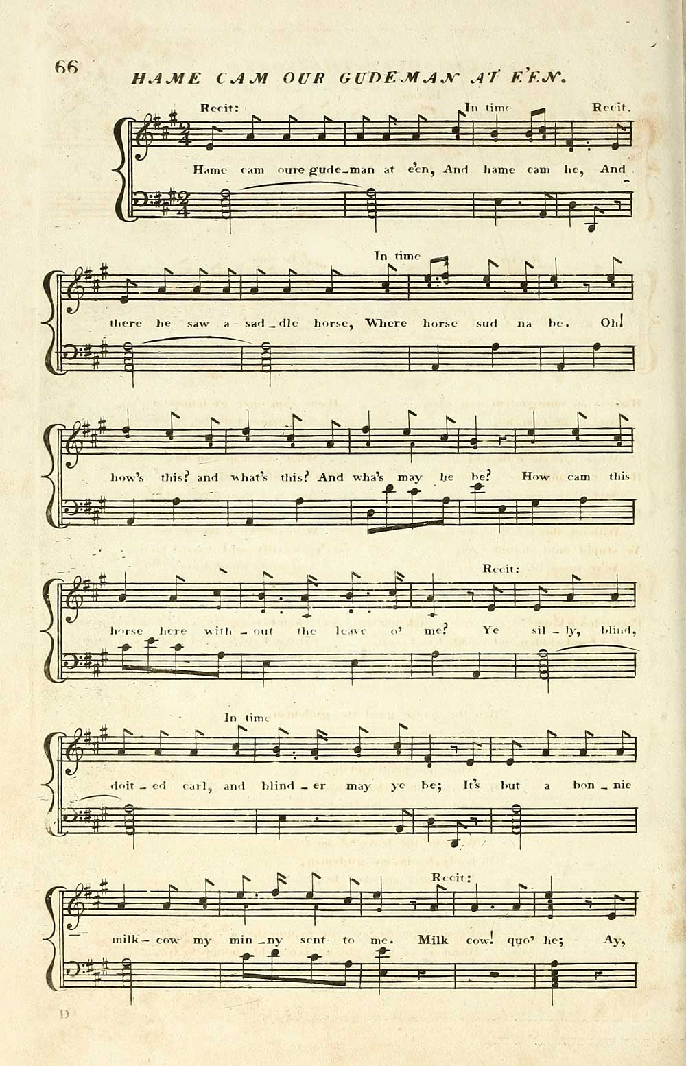 Page 66 of R. A. Smith's The Scotish Minstrel, Volume 4: "Hame Cam Our Gudeman at E'en" ("Home came the husband at evening"), a version of the Child ballad, "Our Goodman".